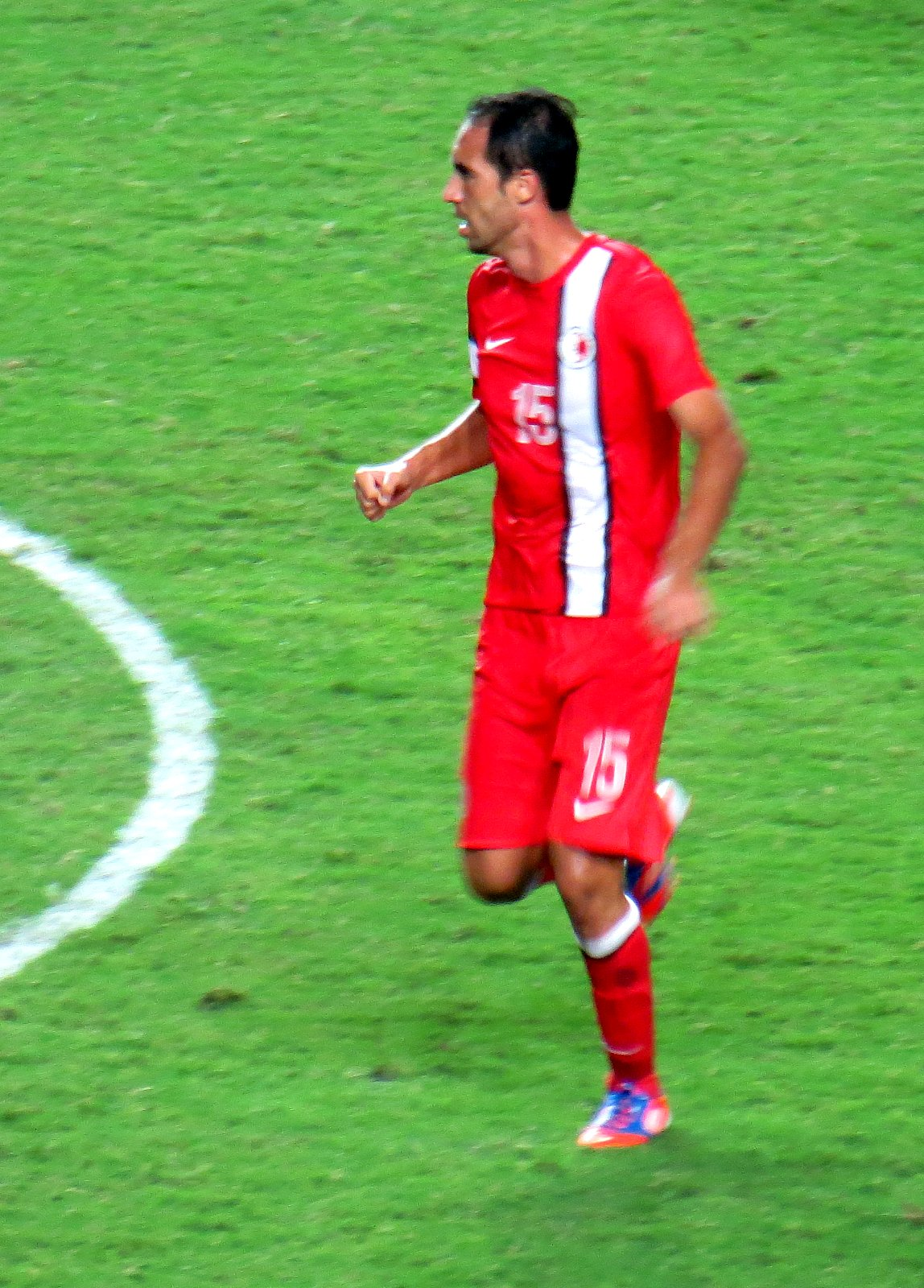 Andy Nagealain playing for Hong Kong national football team against UAE on 15 October 2013. 中文（香港）: 聶凌峰為香港足球代表隊出戰阿拉伯聯合酋長國足球隊，2013年10月15日。